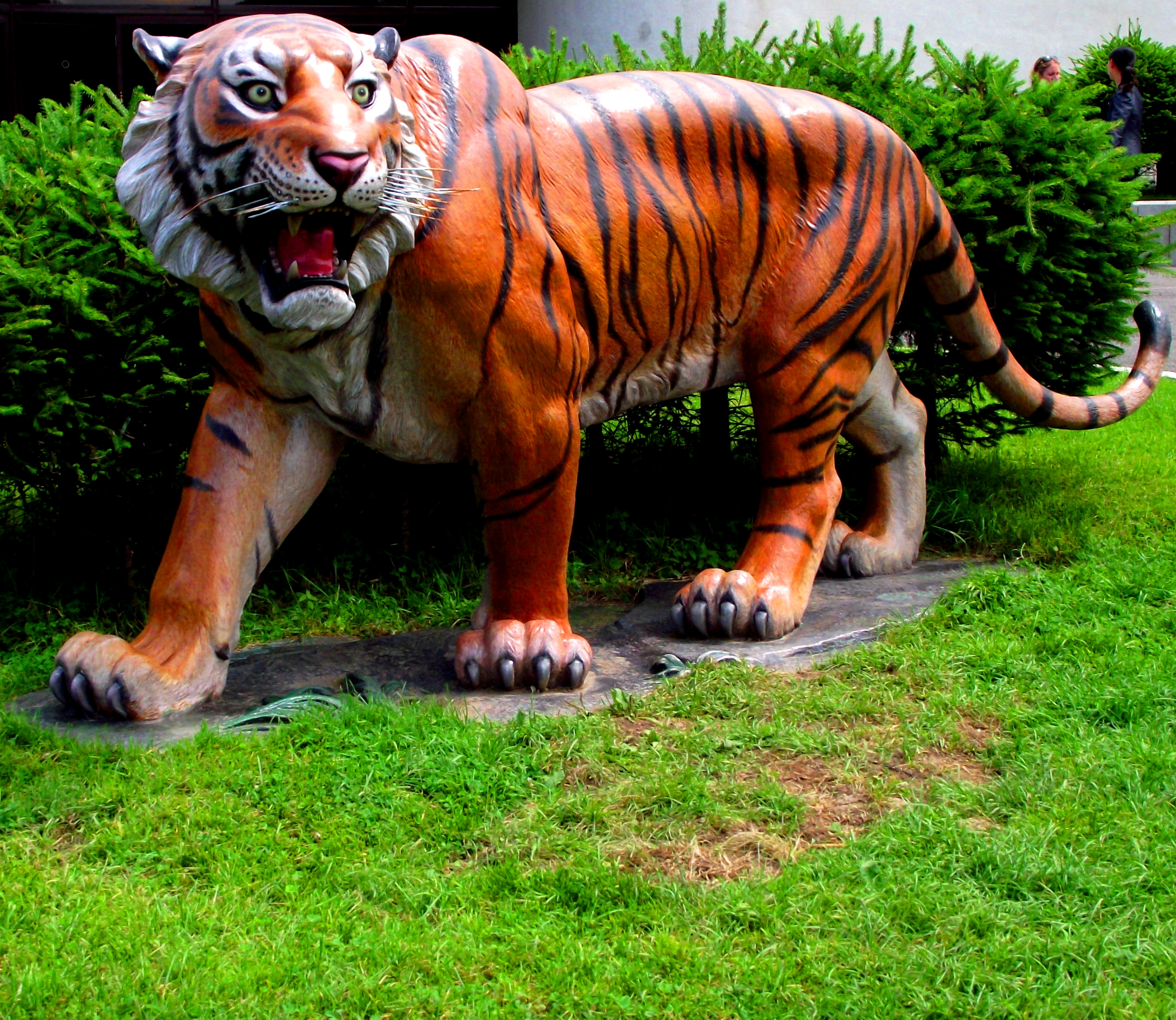 The korean tiger in front of Paektu Hall, North Korea.